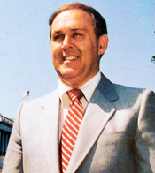 Carl Pursell, US Representative from Michigan